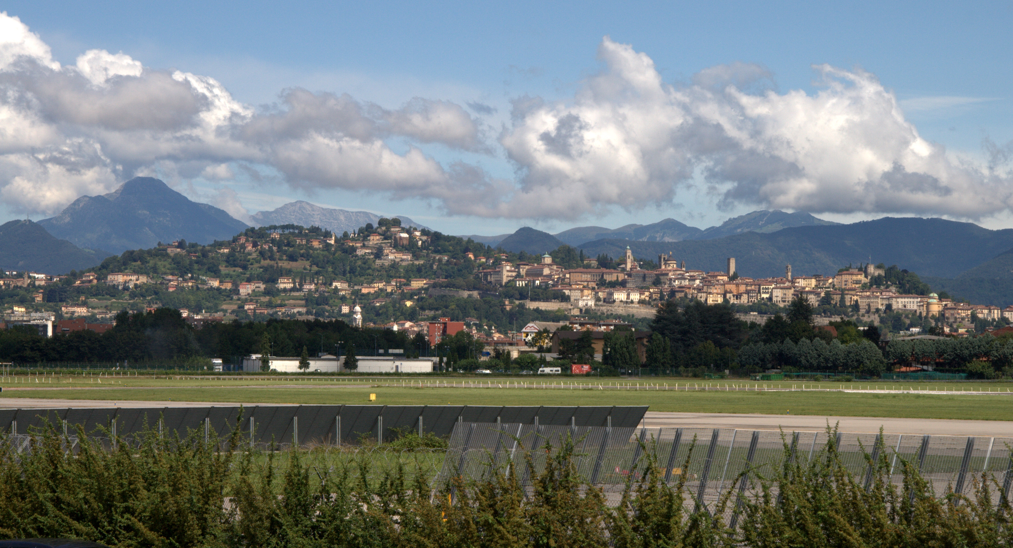 Cloudy day in Bergamo, view from Airport parking